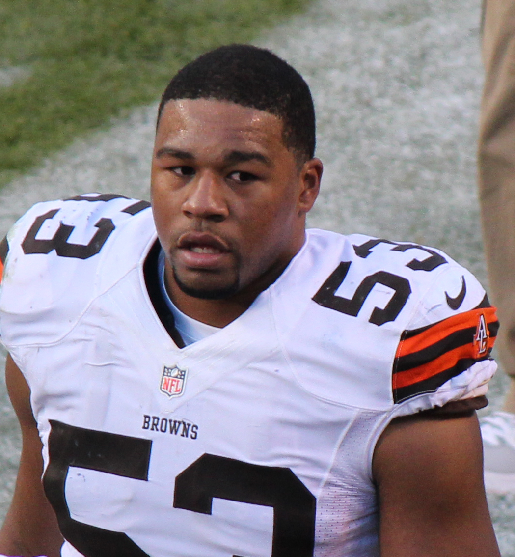 Craig Robertson, a player on the National Football League.